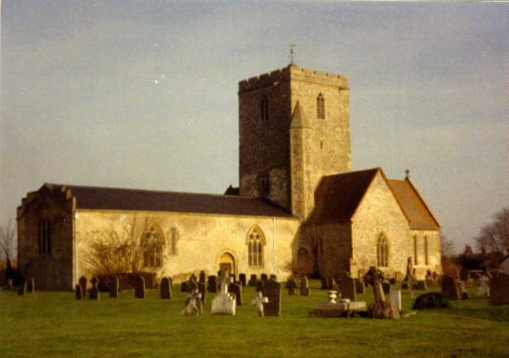 St Mary's parish church, Cholsey Oxfordshire (formerly Berkshire): view from the southwest